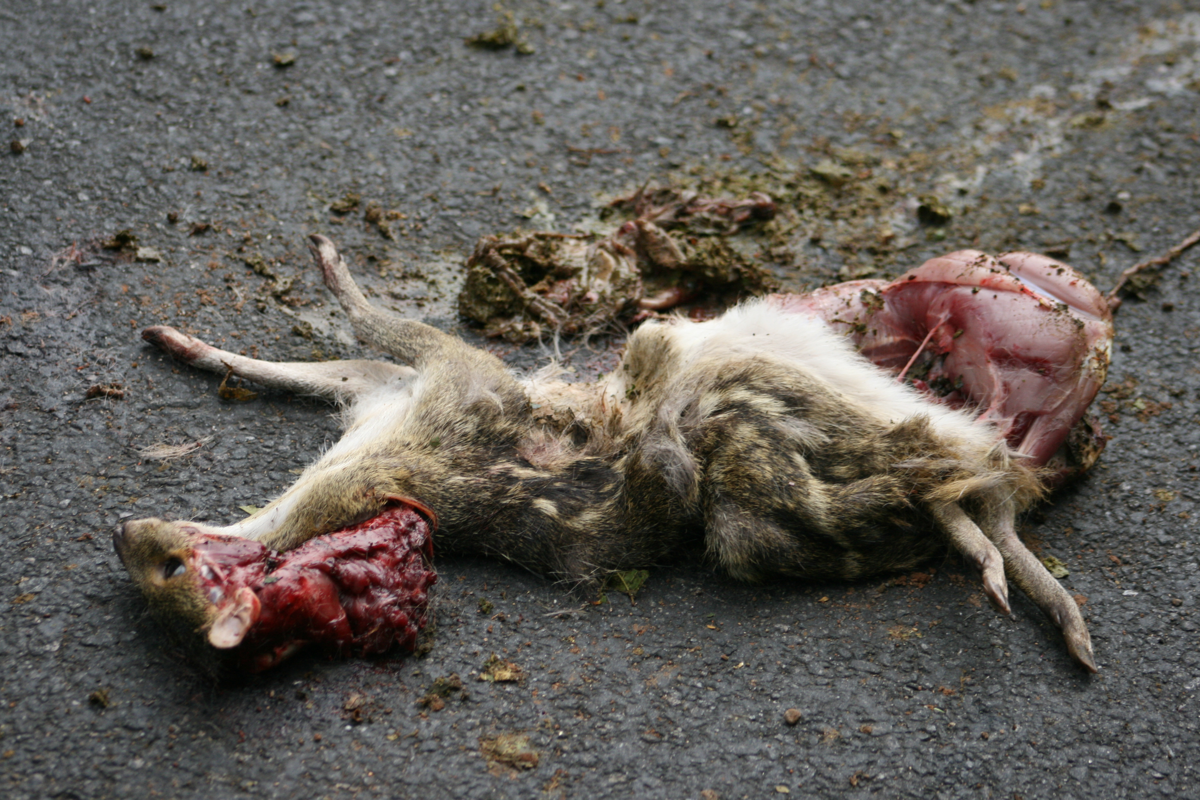 Indian spotted chevrotain (Moschiola indica) _Mouse deer roadkill from the Anaimalai hills